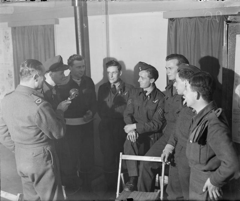 IWM caption:BBC war correspondent Richard North interviews the crew of Avro Lancaster "S for Sugar" of No. 630 Squadron RAF on their return to East Kirkby, Lincolnshire, after bombing the marshalling yards at Juvisy-sur-Orge, France.